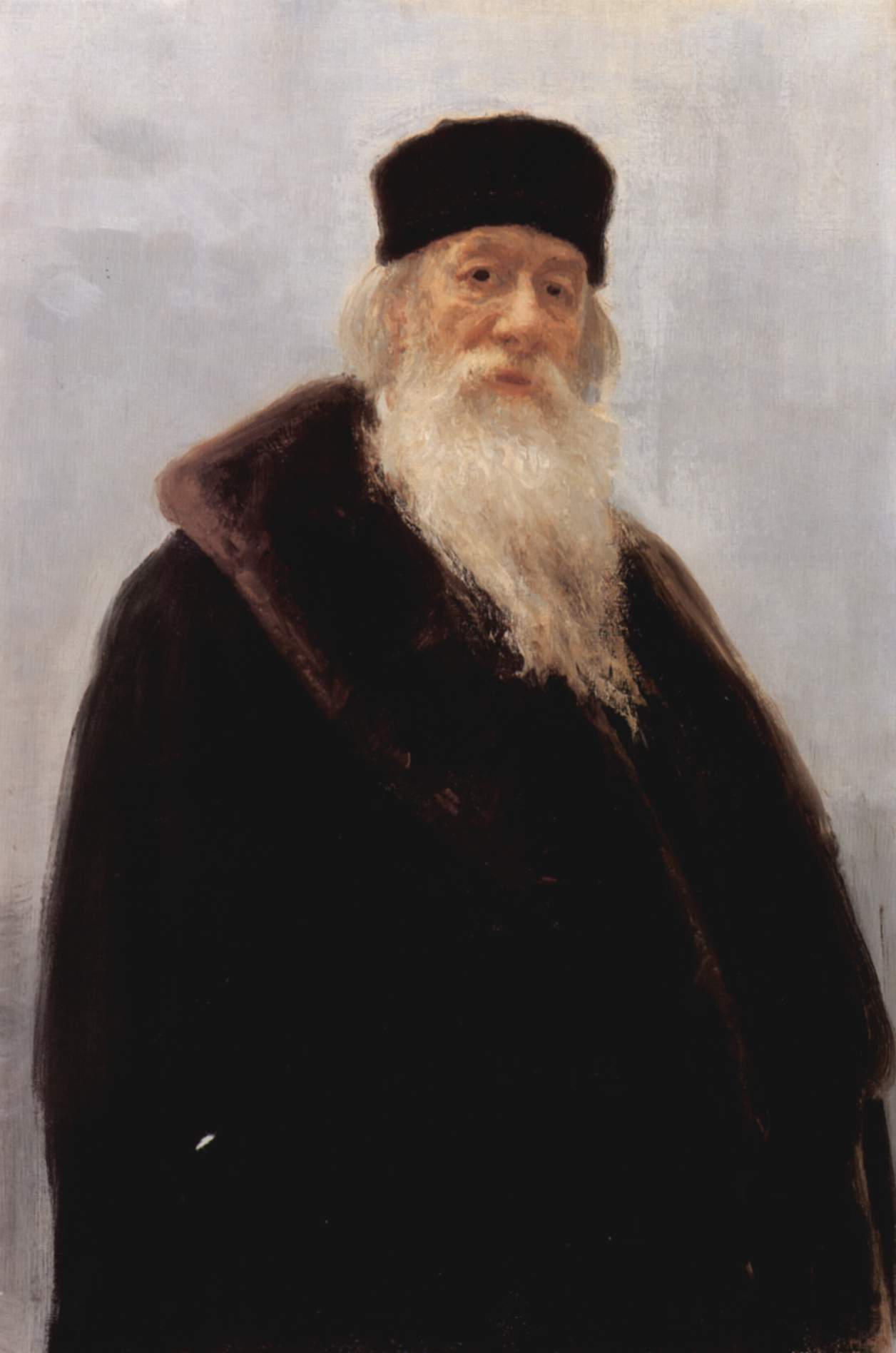 Portrait of Vladimir Vasilievich Stasov, Russian art historian and music critic